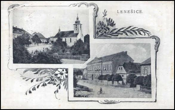 Two views of Lenešice, with the church of Sts. Simon and Jude in the upper part